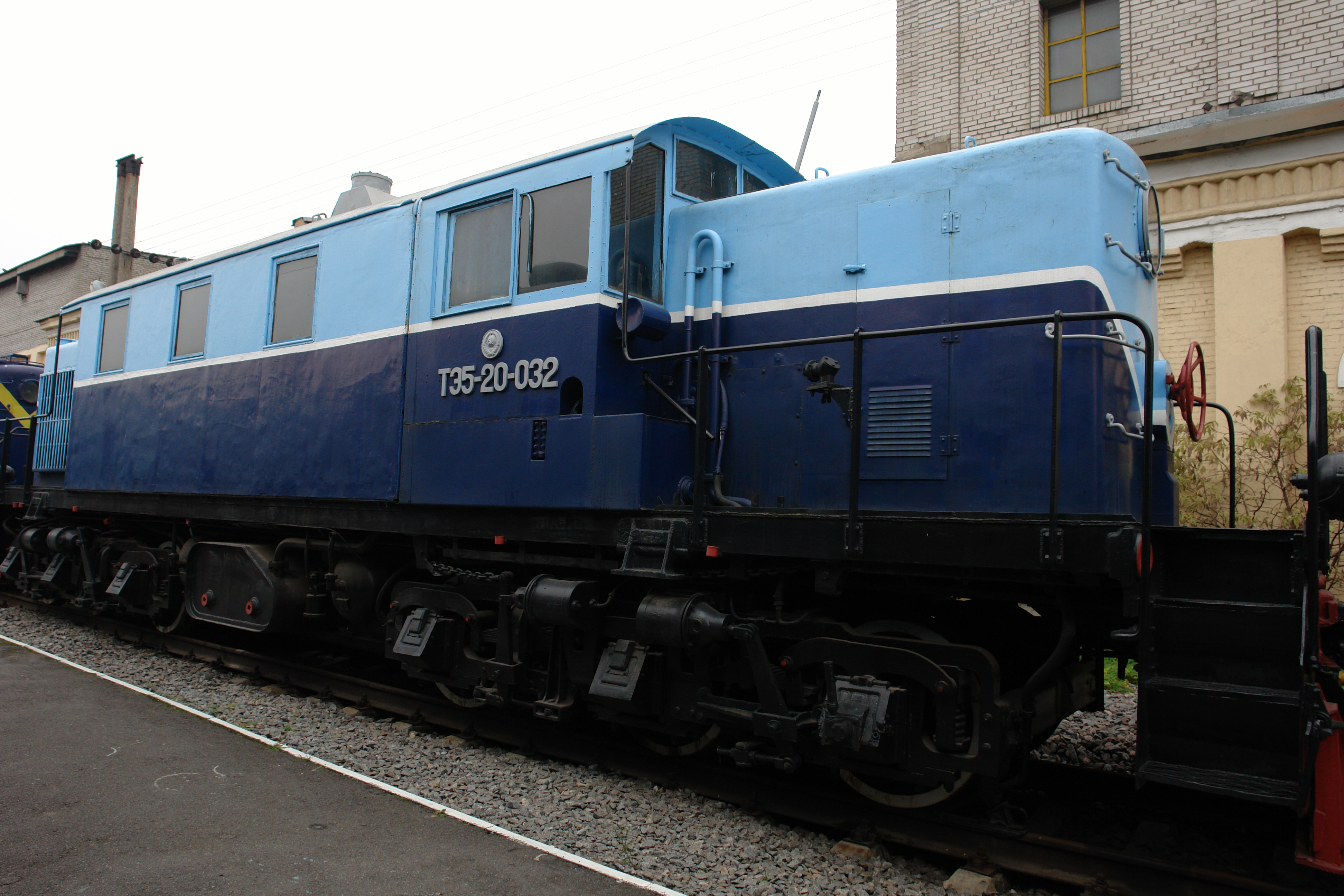 Freight and passenger diesel locomotive TE5-20-032 (test unit) Weight in working order120 t.Design speed93 kphPower1OOOhpTransmissionelectric Built by the Khar'kov Transport Machine-building Works in 1948. This Is a modification of the class TE1 diesel locomotive for use in the extremely low temperatures of the far north. Worked on Moscow-Kursk, Northern, Orenburg and Turkestan-Siberian railways. Received by the museum from the UM Trust at Cheliabinsk in 1992.